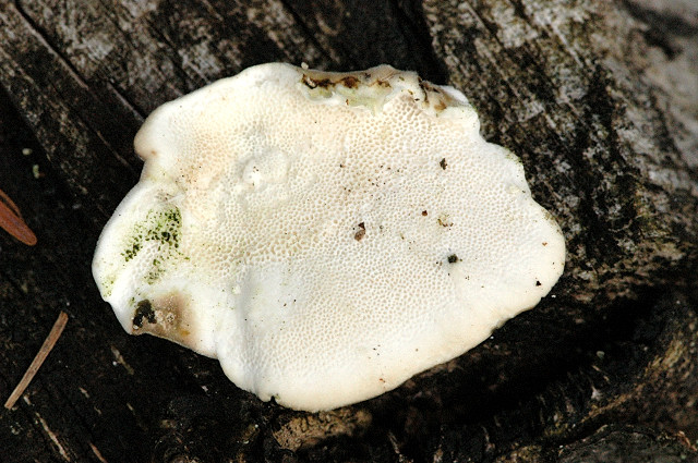 Ischnoderma resinosum from Commanster, Belgium. The determination of the species shown in this picture has been verified.